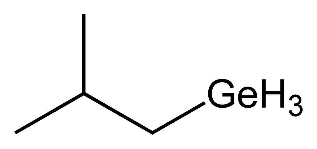 Structural formula of isobutylgermane